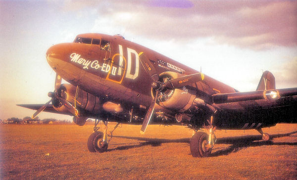 Douglas C-47A Skytrain of the 74th Troop Carrier Squadron, 434th Troop Carrier Group, at RAF Fulbeck, England.